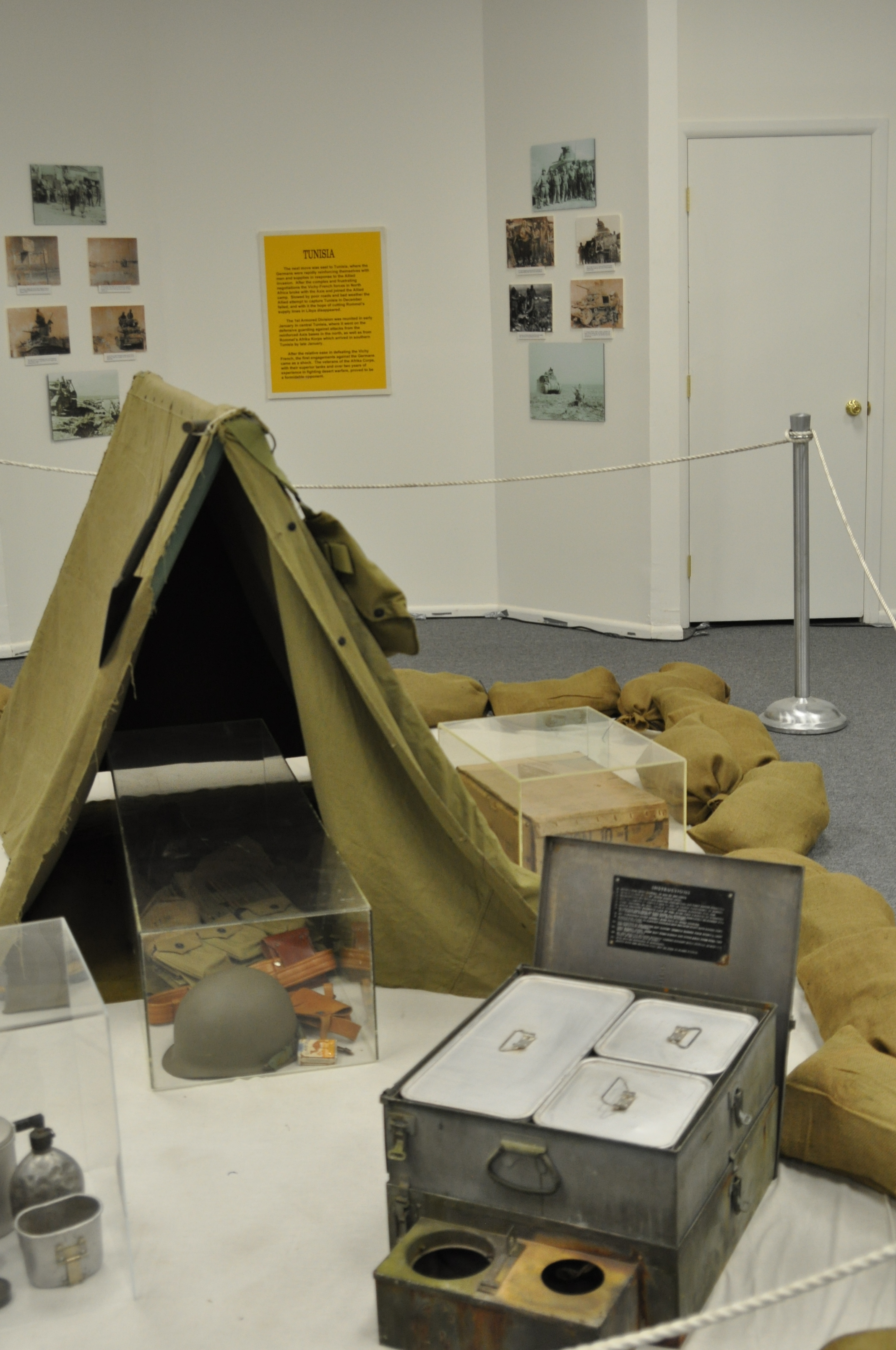 Depiction of camp in WWII